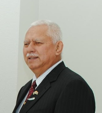 Tekaotiki Matapo, High Commissioner of the Cook Islands to New Zealand, at Government House, Wellington, NZ, on 3 November 2011